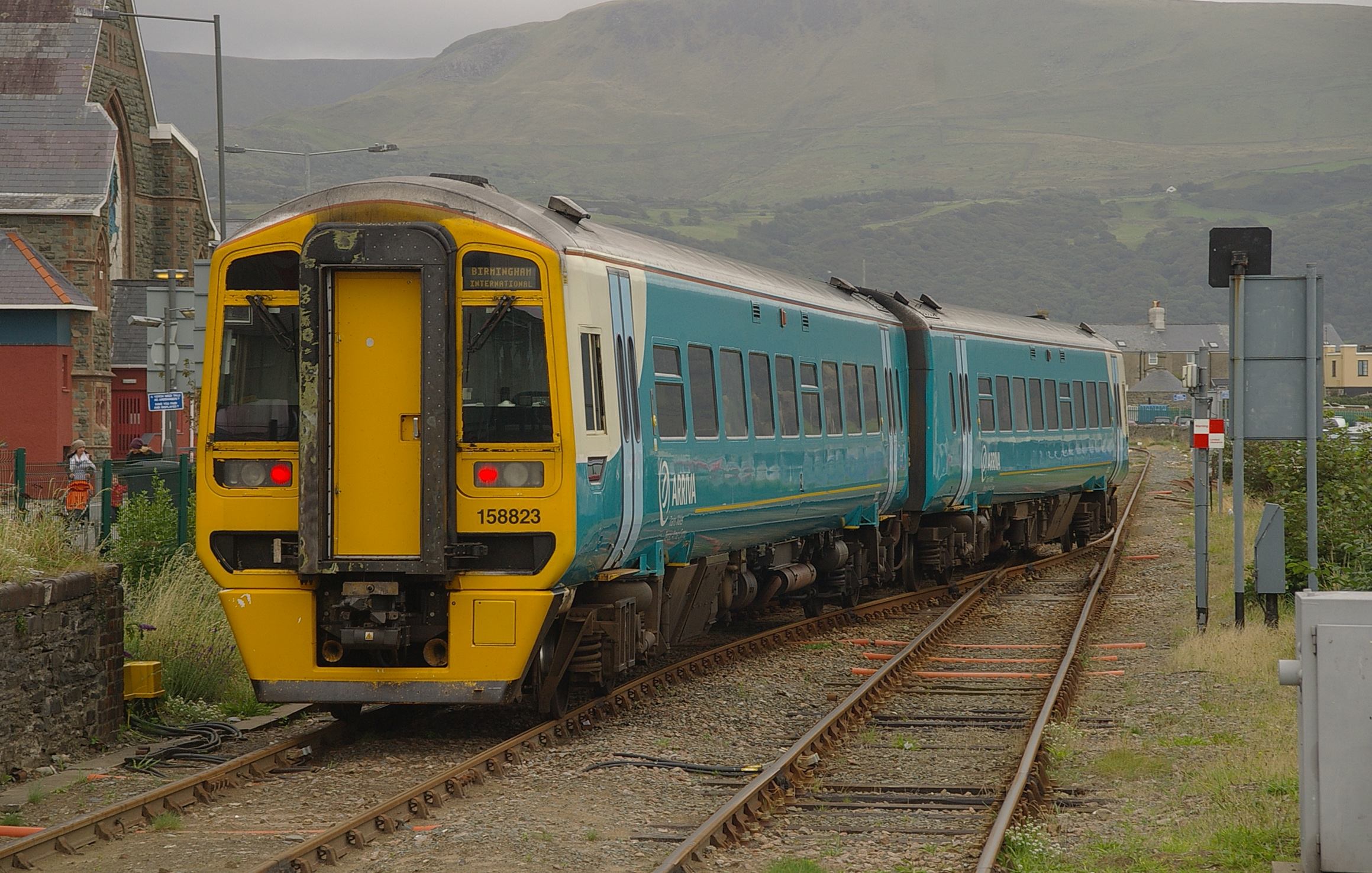 Arriva Trains Wales class 158 "Express Sprinter" DMU 158823 departs Barmouth railway station, heading south with a Pwllheli-Birmingham International service.